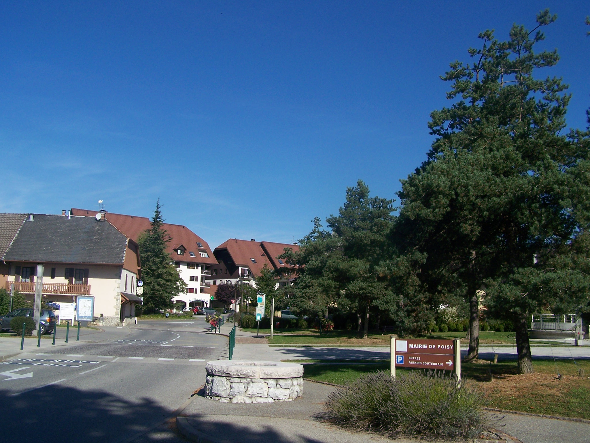 Center of the French and Savoyan commune of Poisy.